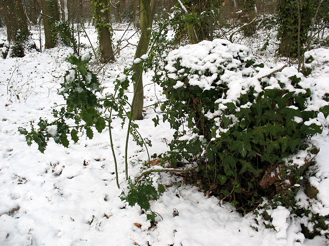 Winter in Elmstead Woods (8): the holly and the ivy Despite the popular carol, one does not often see holly and ivy growing together like this.